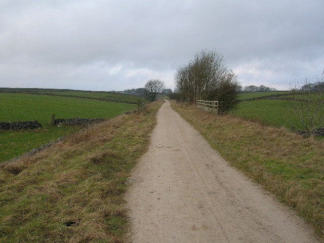 High Peak Trail. A section of the High Peak Trail (now forming the most southerly section of the Pennine Bridleway)just north of the old Hurdlow Station which closed in 1967.